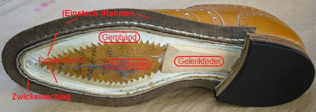 Shoe construction seen from the sole side